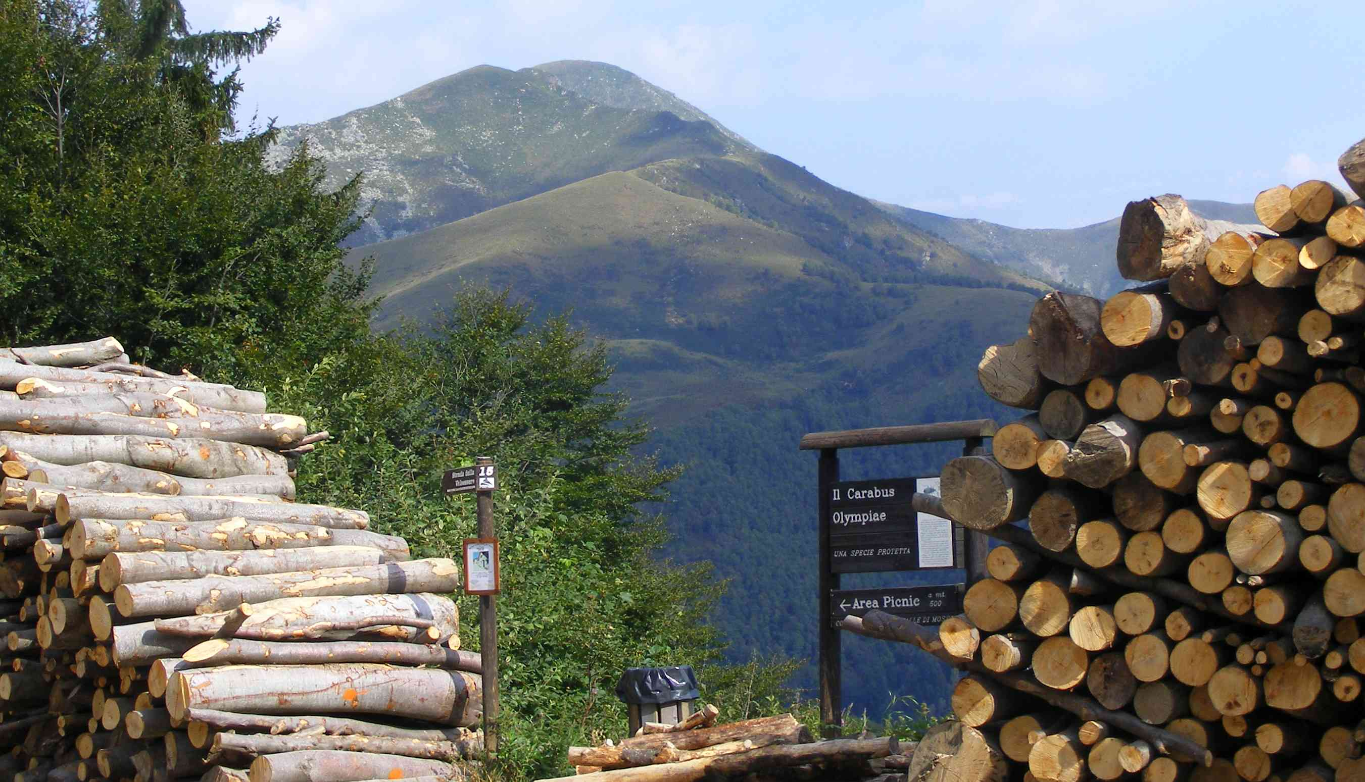 Cima dell'Asnas (Pennine Alps, BI, Italy) from Bocchetto di Sessera